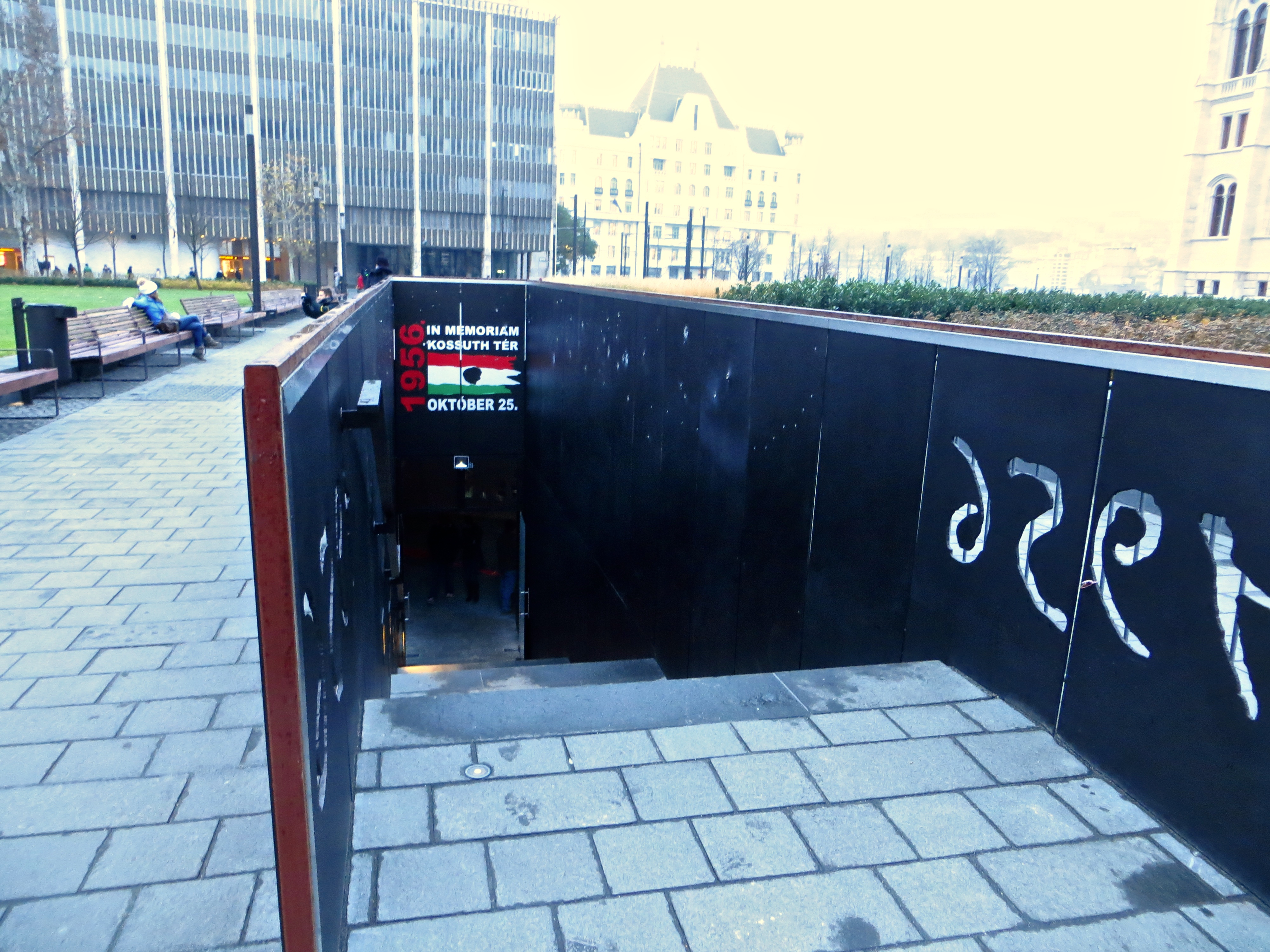 A memorial for the 25 October massacre at Kossuth Tér in Budapest, Hungary.